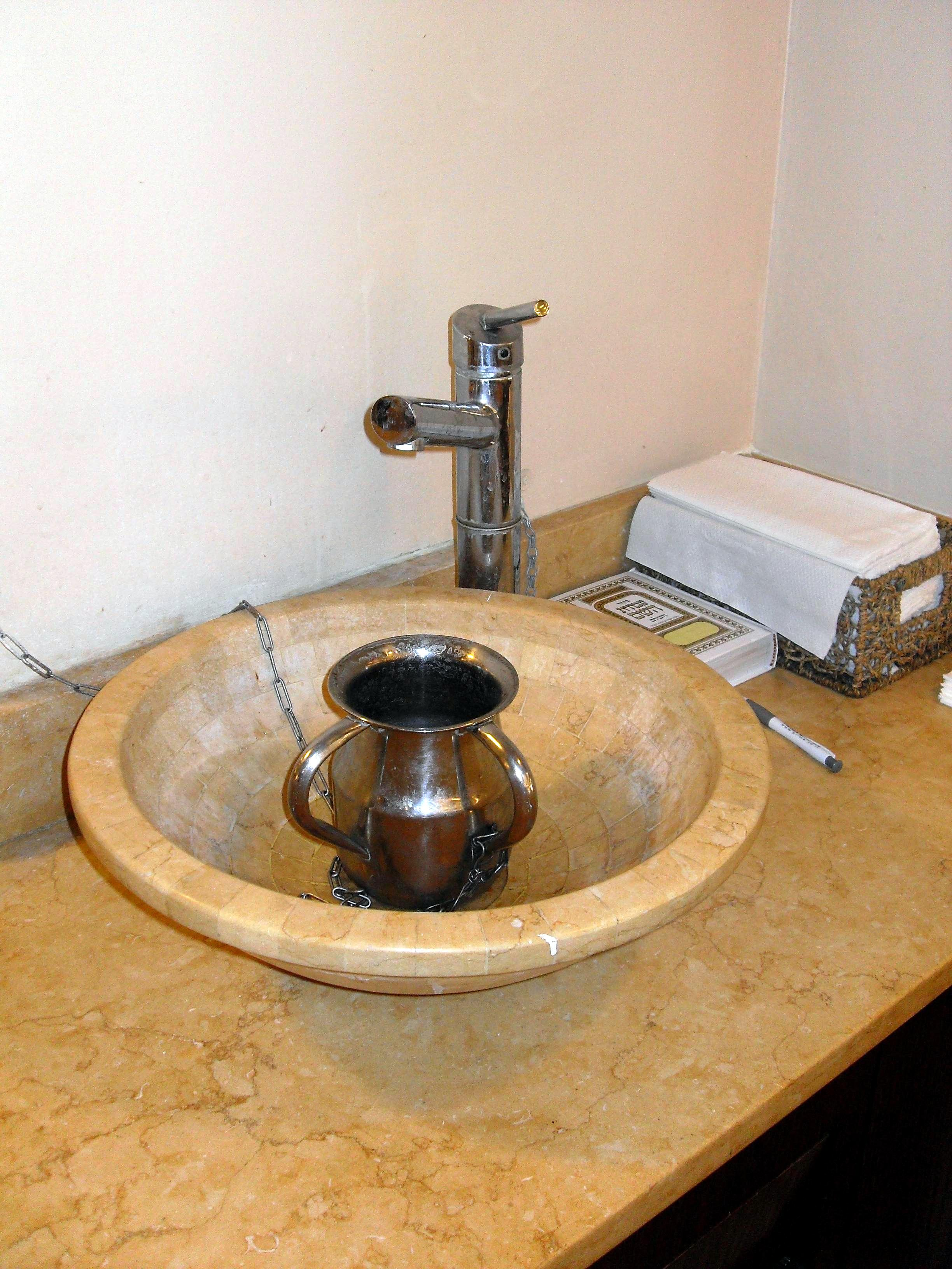 Jerusalem, Prima Kings Hotel, Netilat yadayim and prayer book "עבודת השם" (Avodat HaShem)